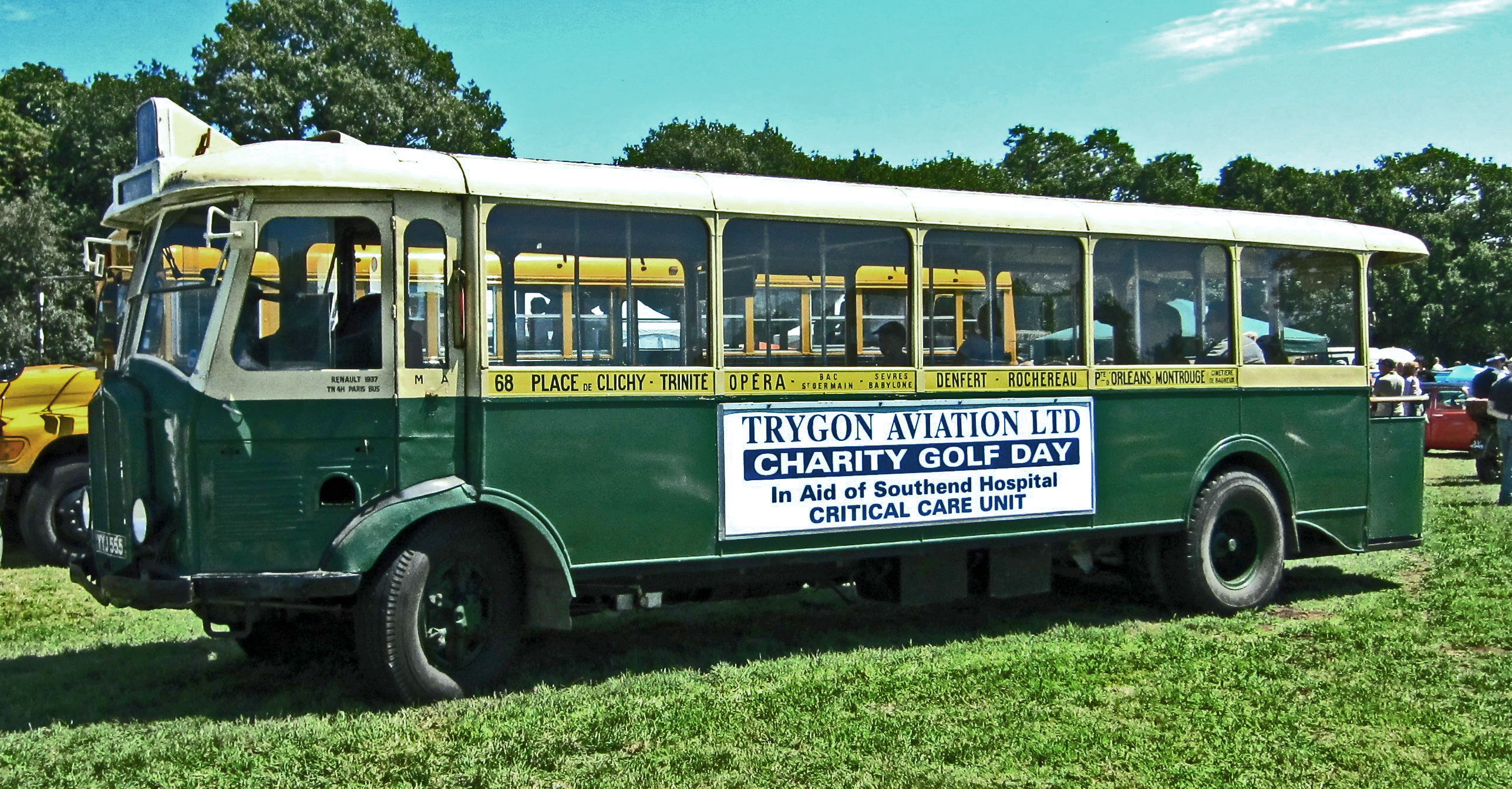 Paris bus adapted for charity use in Essex. Renault TN4H is the identifying data which has been kindly painted on a corner of it.